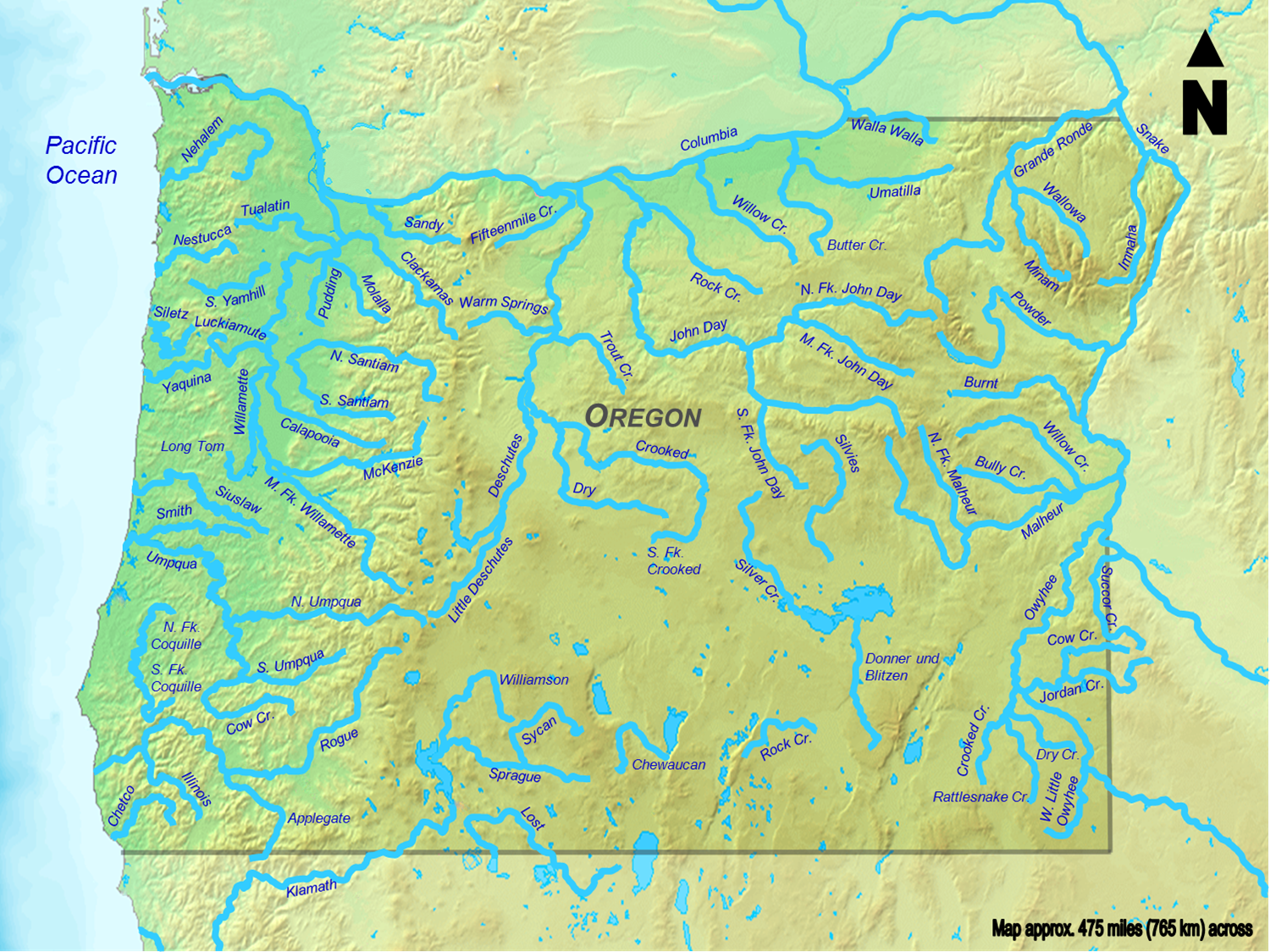 A map of all the rivers in Oregon over 50 miles (80 km) in length, as listed here. See also the image map here.